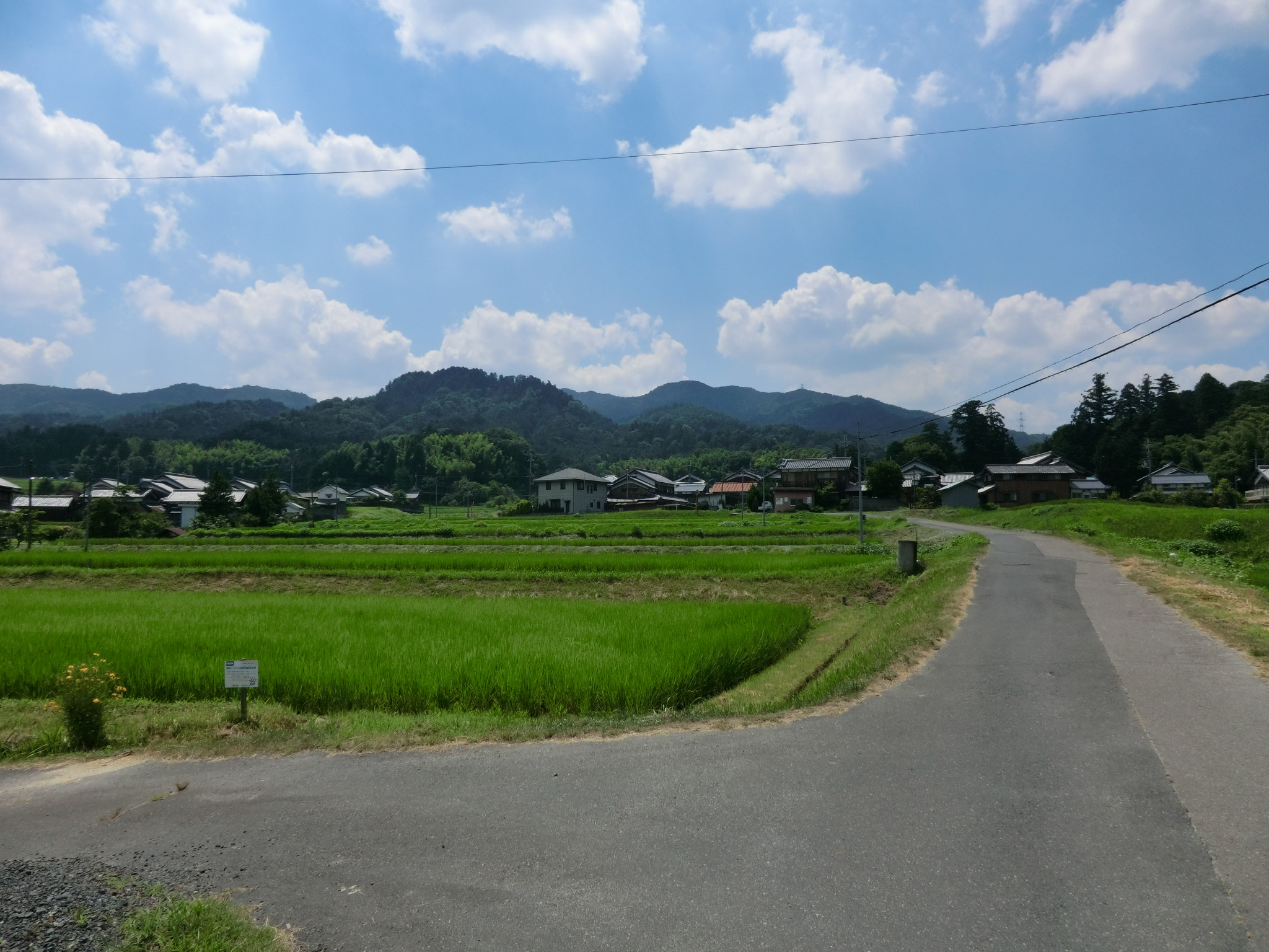 Hiking trails of Mount Handou, Koka city, Shiga pref, Japan